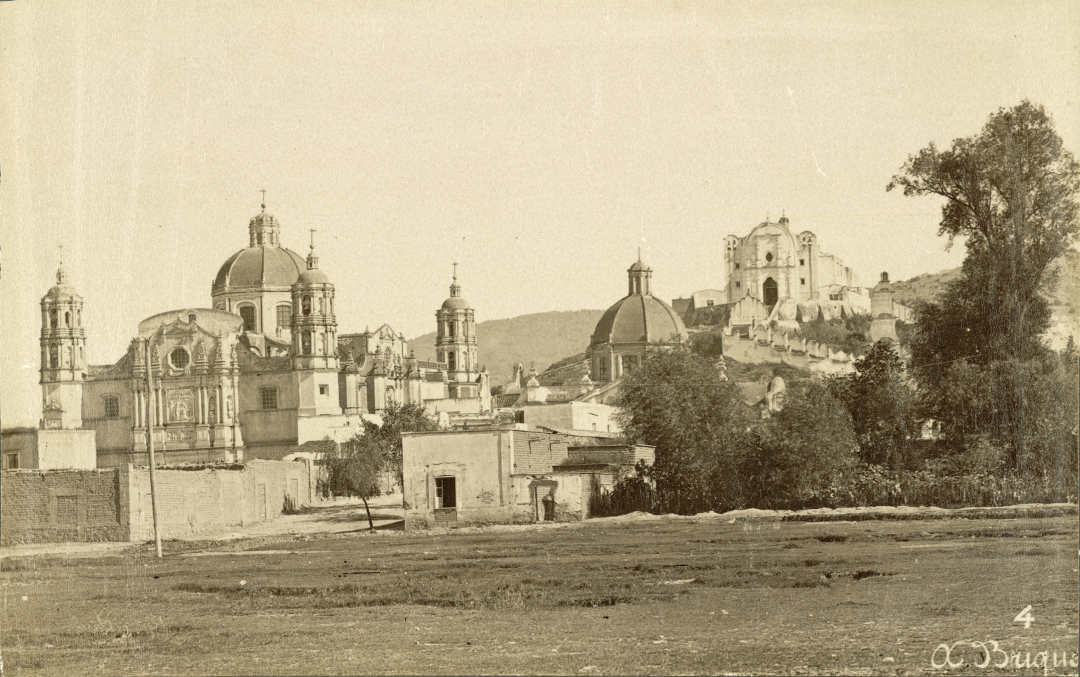 Collection: A. D. White Architectural Photographs, Cornell University Library Accession Number: 15/5/3090.00649 Title: Mexico City. Village and Basilica of Guadalupe Publisher: Claudio Pellandini Photographer: Abel Briquet (French, 1854-1896) Building Date: 1709 Photograph date: ca. 1885-ca. 1895 Location: North and Central America: Mexico; Mexico City Materials: albumen print Style: Baroque Provenance: Schuchardt Collection Persistent URI: There are no known U.S. copyright restrictions on this image. The digital file is owned by the Cornell University Library which is making it freely available with the request that, when possible, the Library be credited as its source. We had some help with the geocoding from